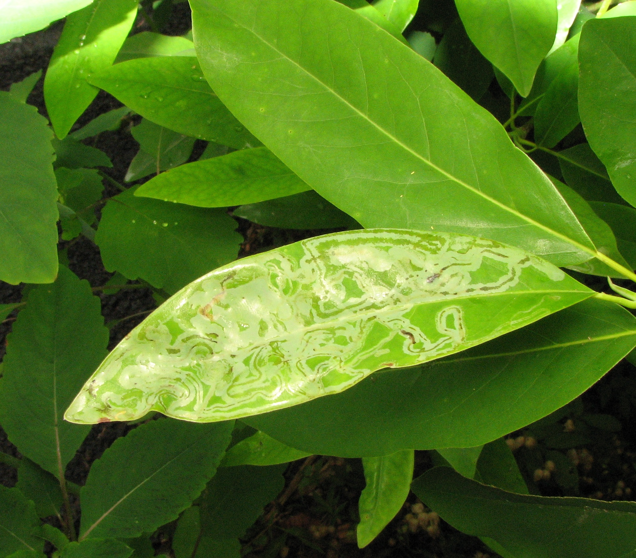 Leaf mines of Phyllocnistis magnoliella on magnolia. Briar Bush Nature Center, Montgomery County, Pennsylvania, USA.